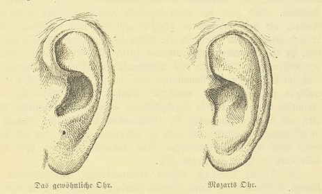 The Mozart-Gemeinde in Berlin had acquired over 300 members when the founders decided to launch a quarterly publication devoted to "all those things, which either reveal new insight into Mozart, his life and his works, or which contribute to the continuing veneration of his divine genius." Amongst articles listing manuscript copies of his music, letters to and from his wife, and essays on the reception of his operas and iconography, appeared the essay entitled "Mozart’s Ear," a scientific investigation of Mozart’s physical features as an indicator of his genius.